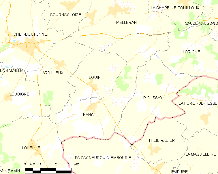 Map of French municipality Hanc